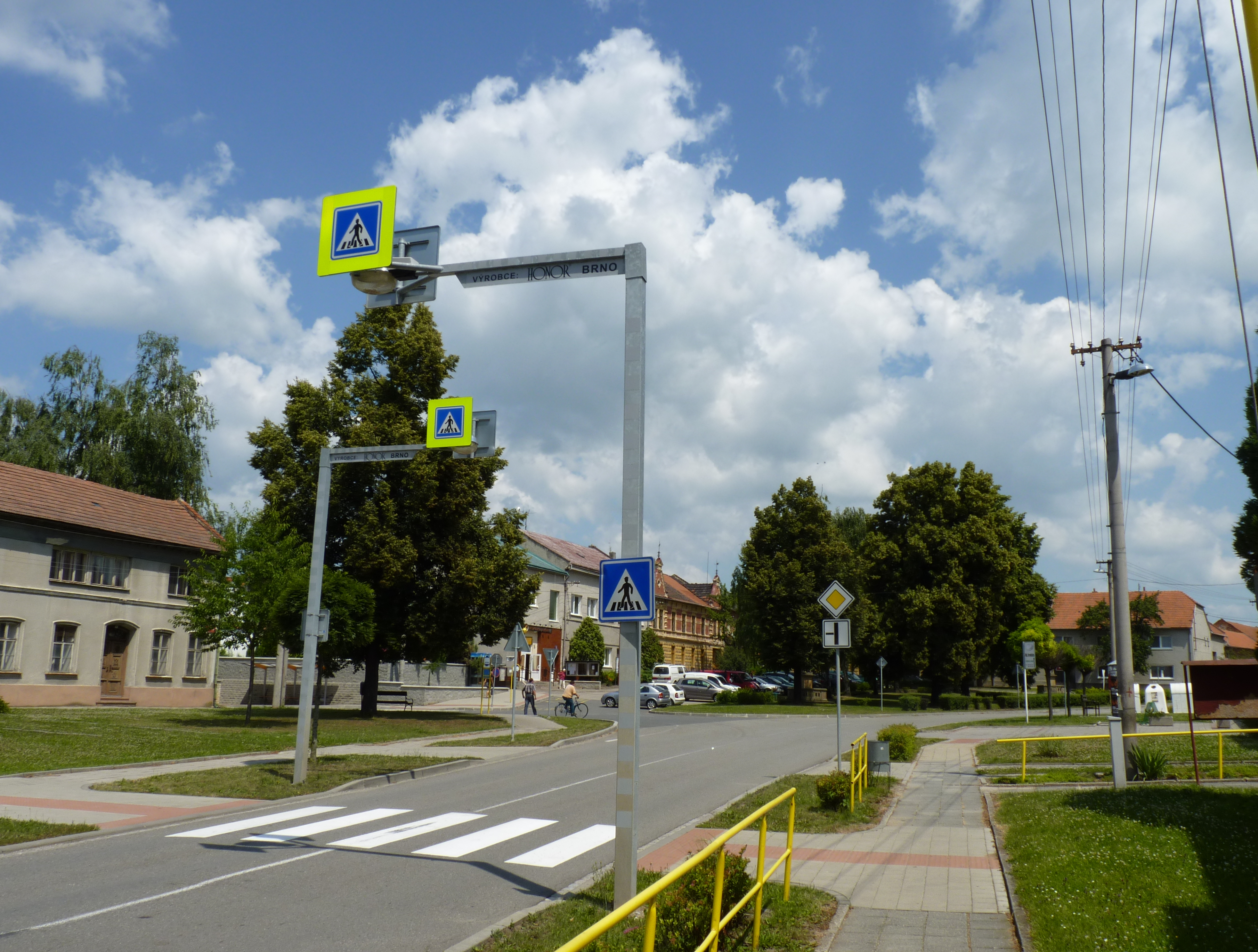 Hrubčice. Prostějov District, Olomouc Region, Czech Republic